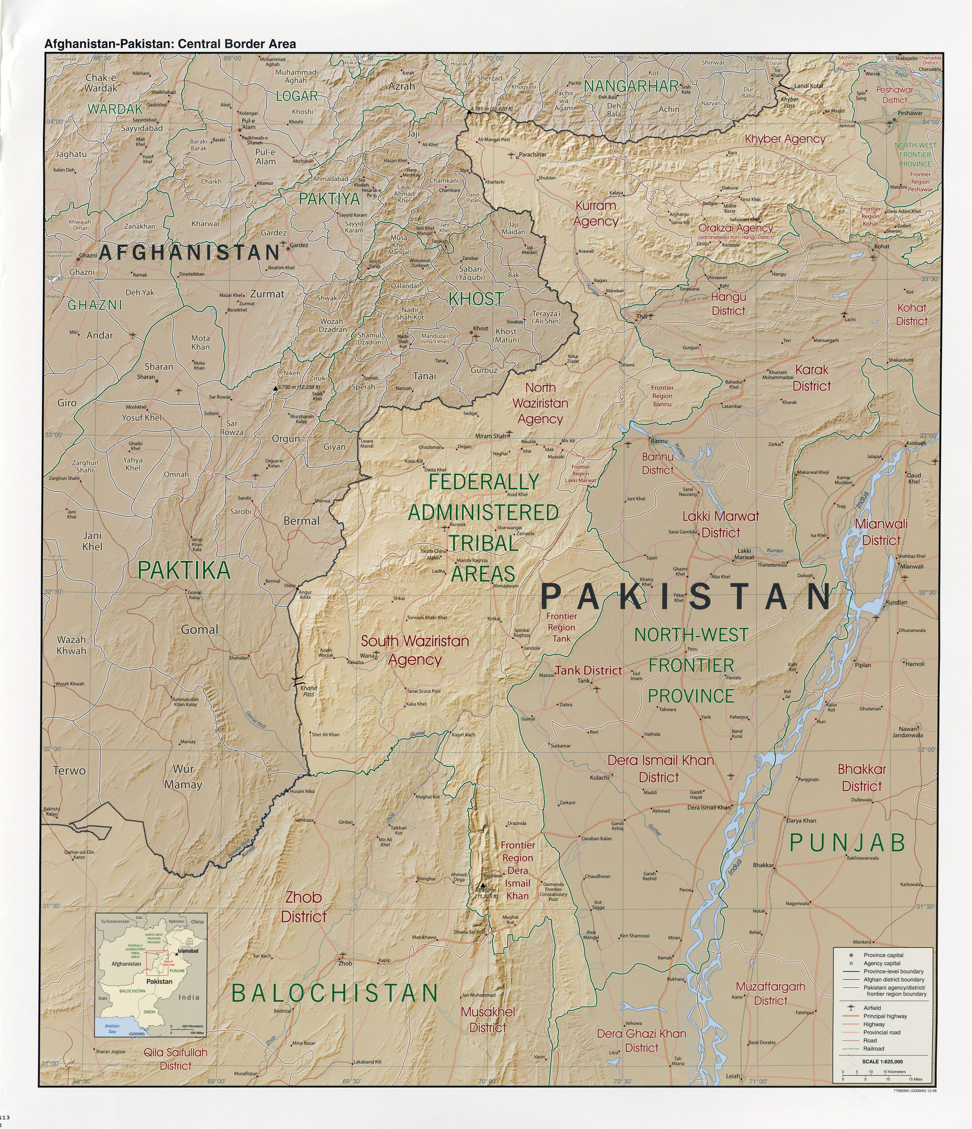 Afghanistan-Pakistan border area in 2008, showing Patika, Patiya and Khost districts in Afghanistan and the Federally Administered Tribal Areas (FATA), North West Frontier Province (NWFP) and parts of Balochistan and Punjab in Pakistan.